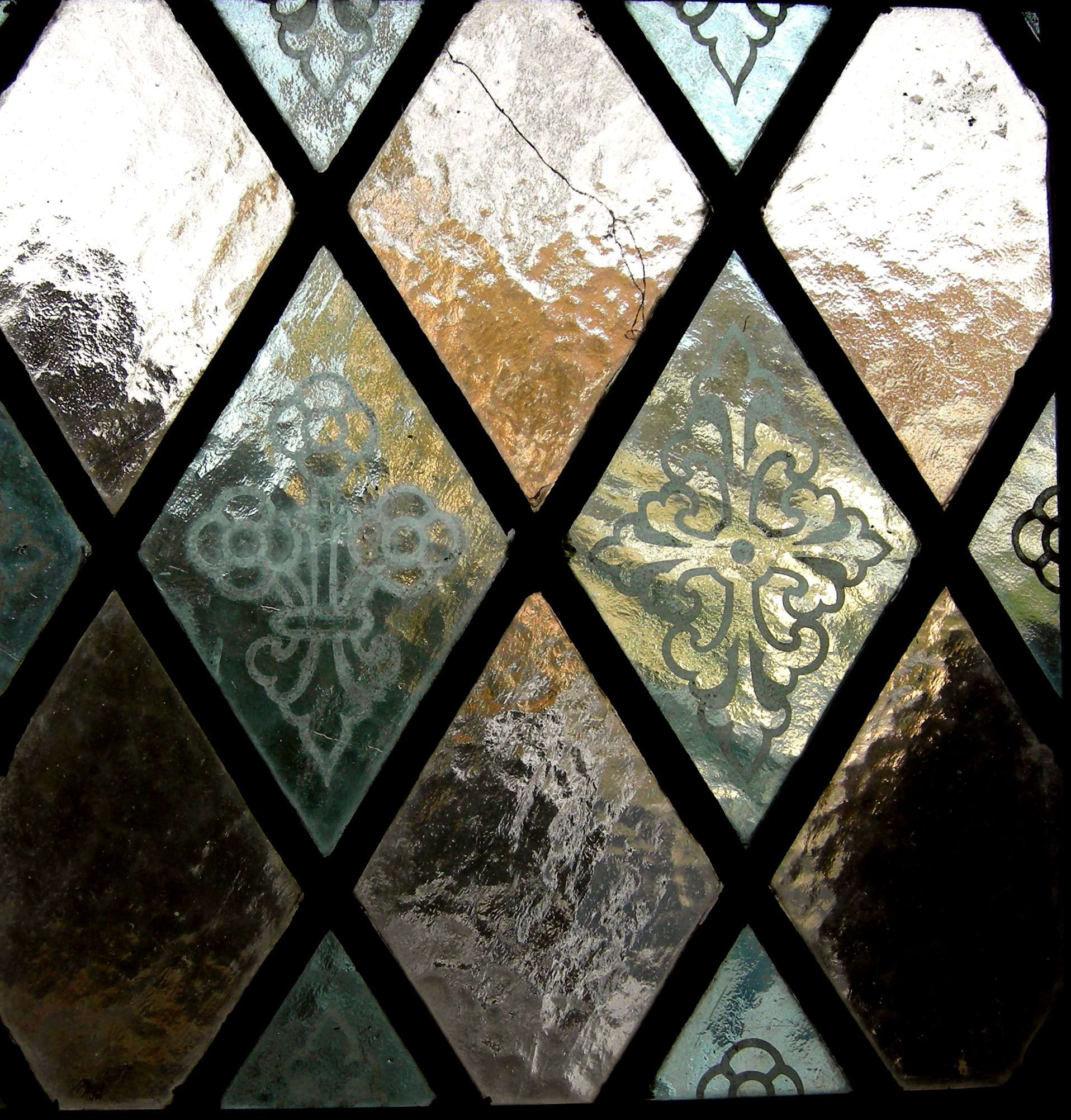 Salvage glass from a demolished chapel. Probably installed around 1900. Grey-green and dull yellow (or beige) textured glass with white painted motifs. One-millimetre thick leaded panes. The duller pastel colours were the cheapest; also at this time it was fashionable to have either colourless windows with a small, central, coloured motif, or light pastel glass in combinations of green, yellow and pink.